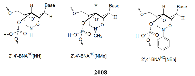 BNAH8